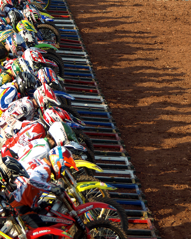 A moto start at Red Bull FIM Motocross of Nations 2008, in Donington Park (England). Racing Shadows